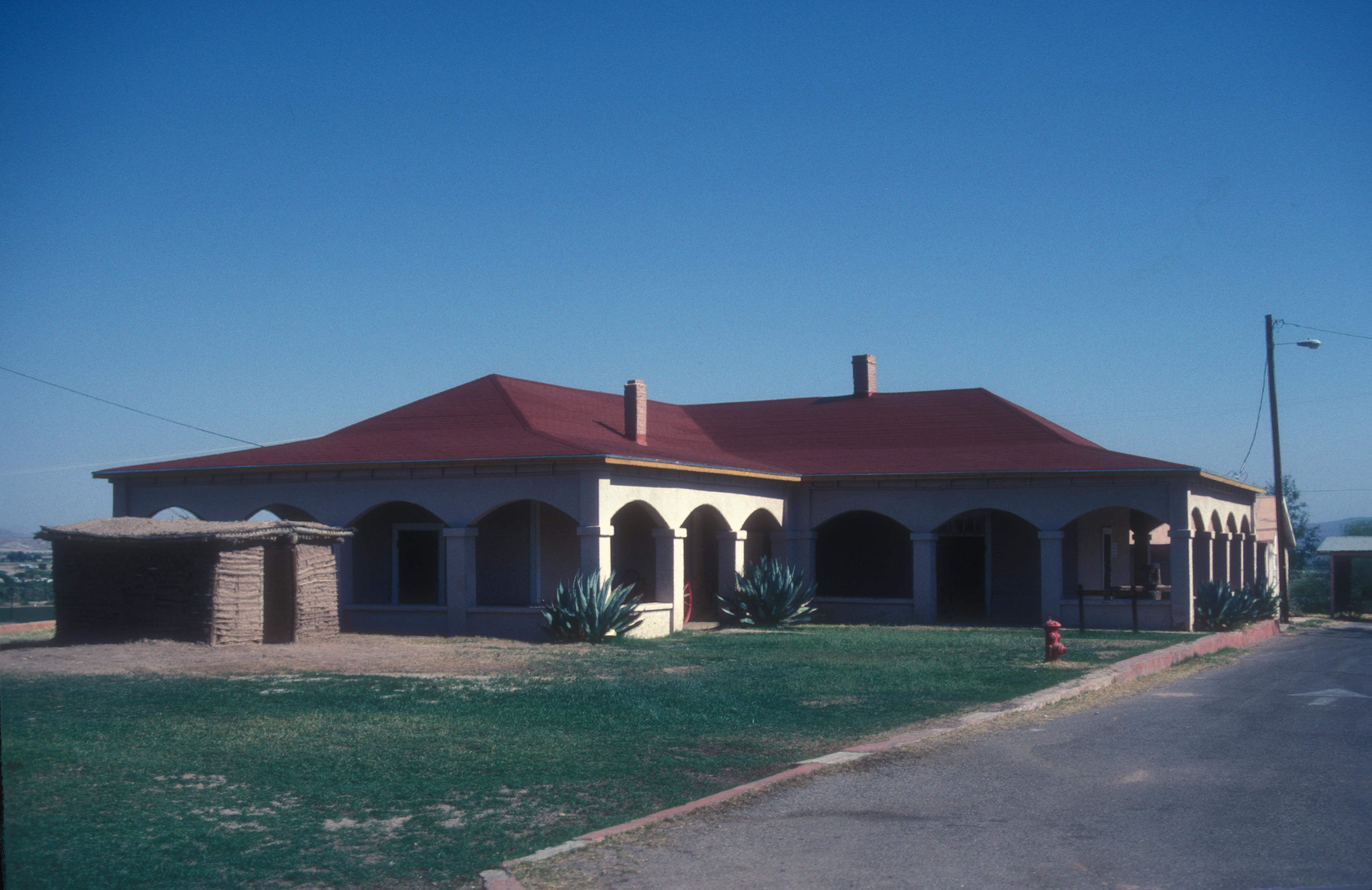 Fort Yuma, Imperial County, southeastern California. Now part of the Quechan Indian Reservation. It was on the Butterfield Overland Mail Company route from 1858-1861, and was abandoned May 16, 1883, and transferred to the Department of the Interior. The Fort Yuma Indian School and Mission now occupy the site. This is an "associated site" in the Yuma Crossing and Associated Sites Historic District, listed on the National Register of Historic Places in Imperial County . It is California Historical Landmark #806.